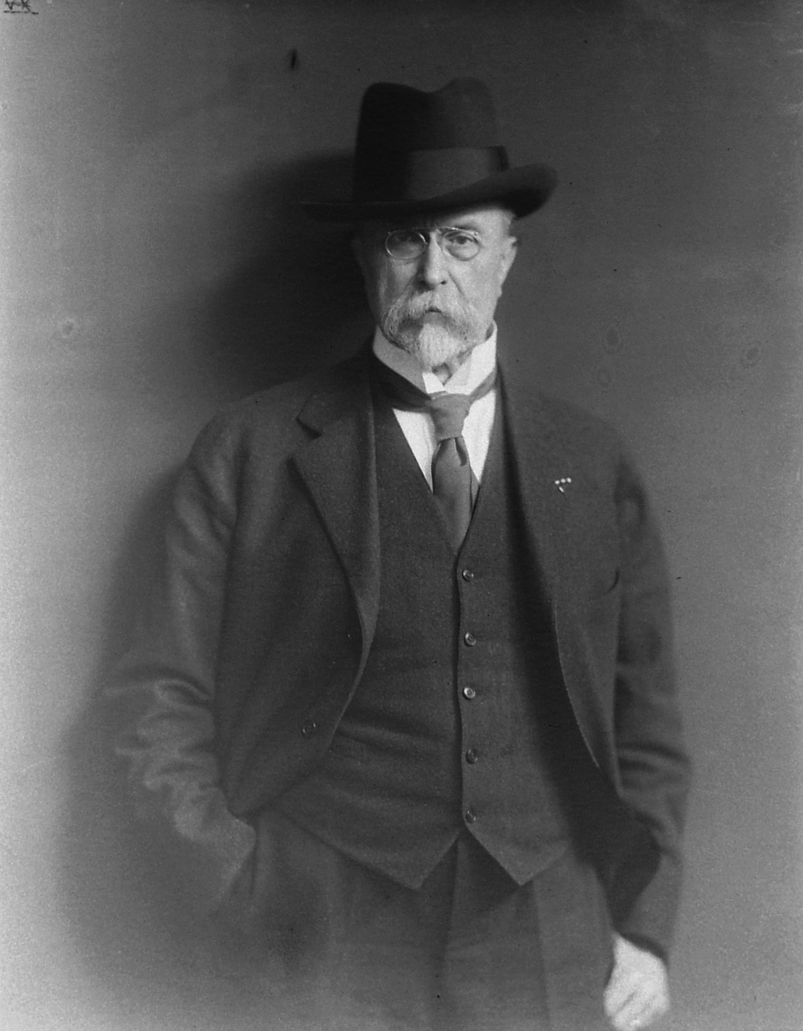 Portrait photo of T. G. Masaryk, edited negative This is a retouched picture, which means that it has been digitally altered from its original version. Modifications: colour inversion & adjustment, perspective correction, cropped. Modifications made by Josef Plch.